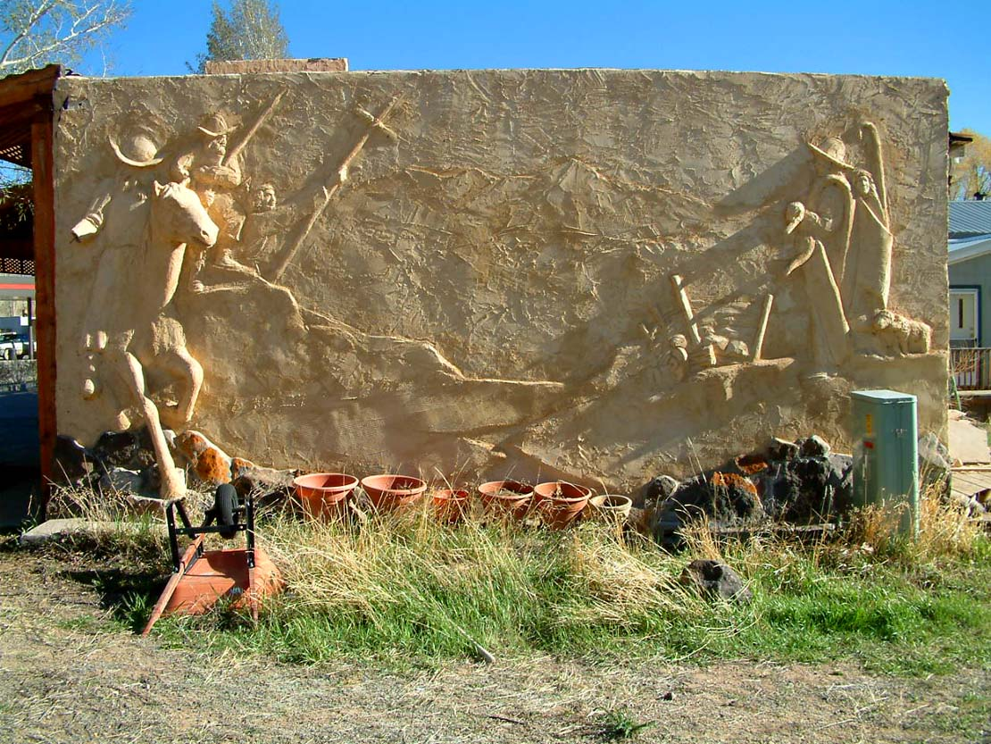 This picture was taken by me (Einar E Kvaran) in 2010 of a house that used to be the studio of Huberto Maestas. He created the bas relief on the side of the building. It is now a restaurant.